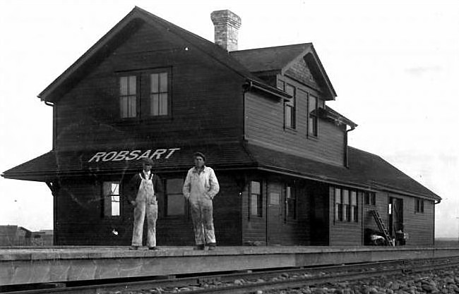 Two men on station platform, Robsart, Saskatchewan.